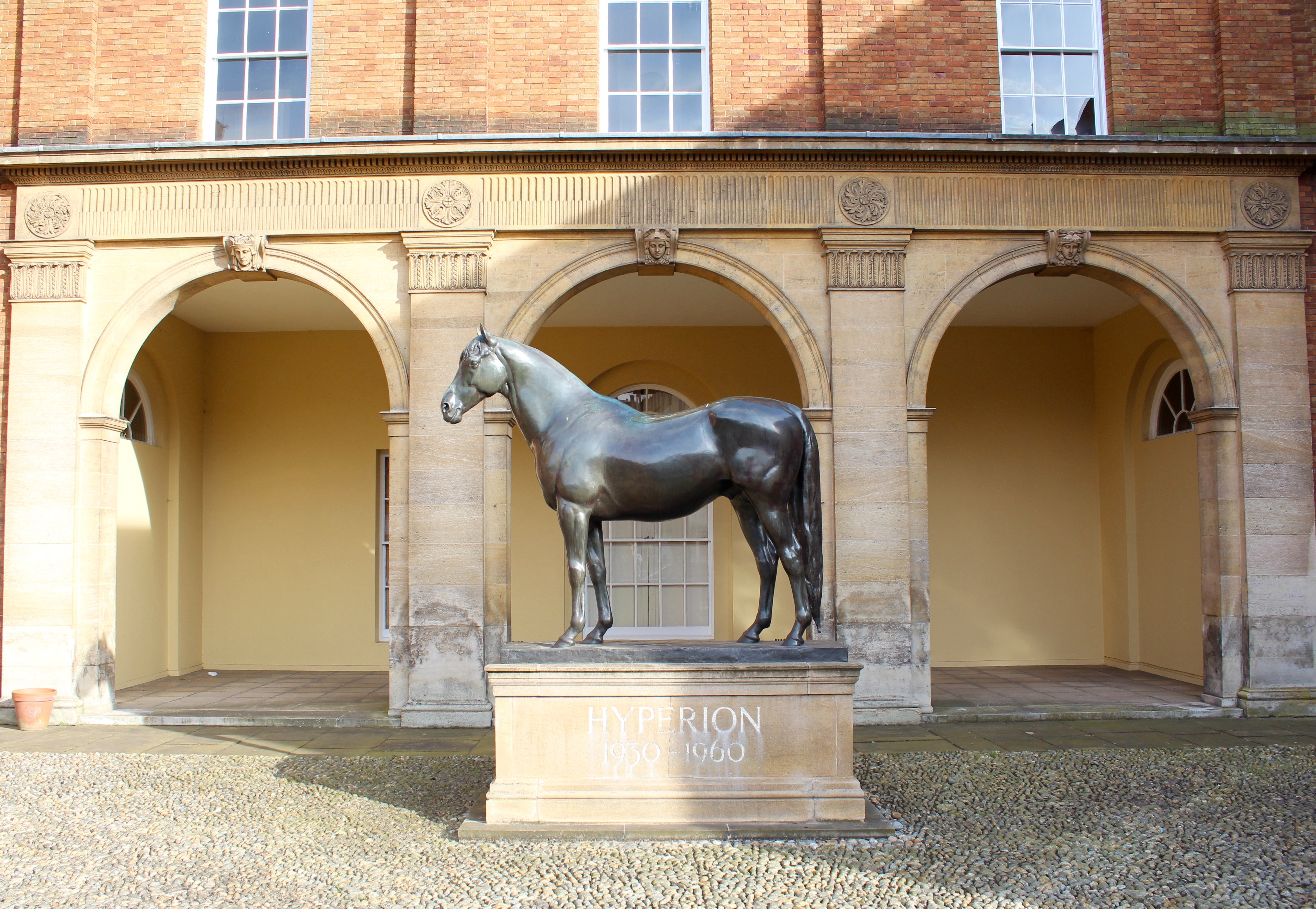 Hyperion statue, Newmarket, UK